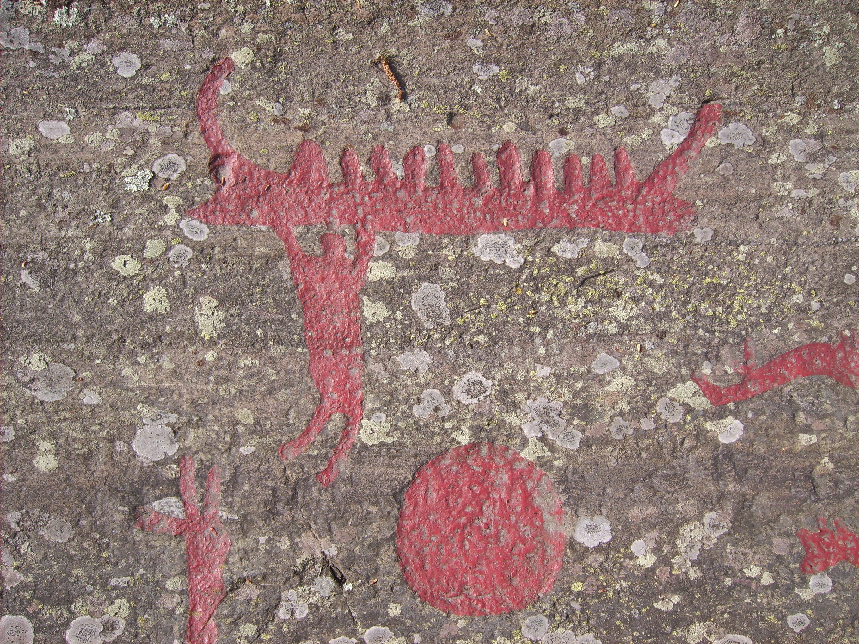 Photo by Harri Blomberg.